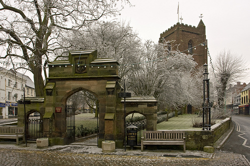 St Nichols Church, Newport, Shropshire